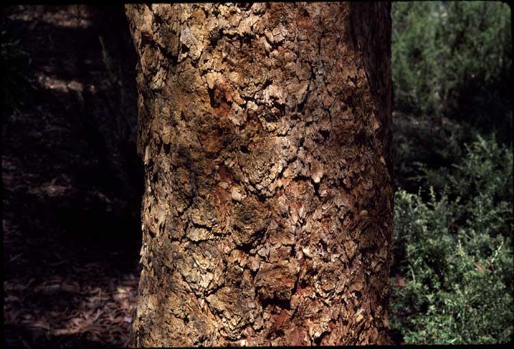 Bark of Corymbia peltata in the Royal Botanic Garden Sydney